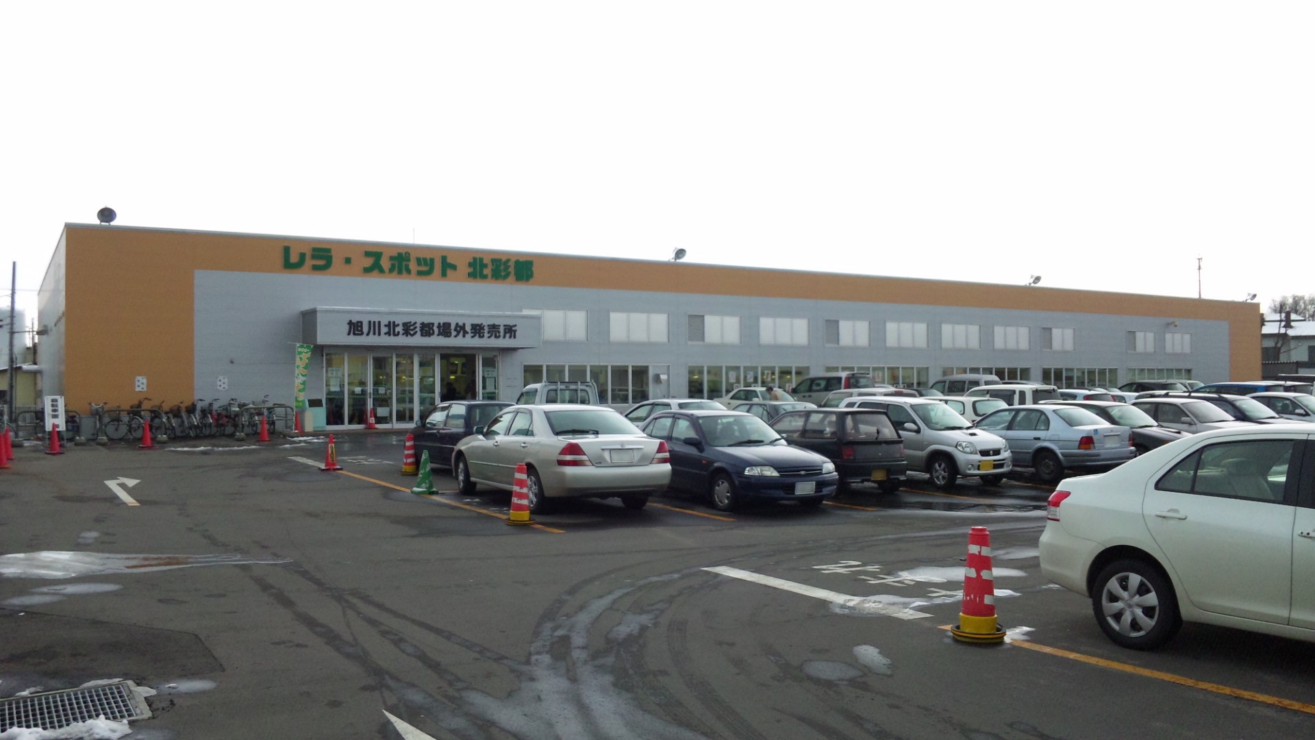 Rera-spot kitasaito, in Asahikawa, Hokkaido, Japan